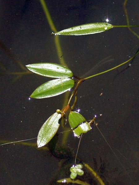 Yu Ito and Anna Skriptsova (2008) Aquatic plant research in Russian Far-East. Bulletin of Water Plant Society, Japan 89: 34-42.